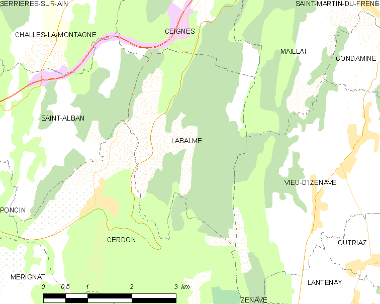 Map of French commune: Labalme Map commune FR insee code 01200.png